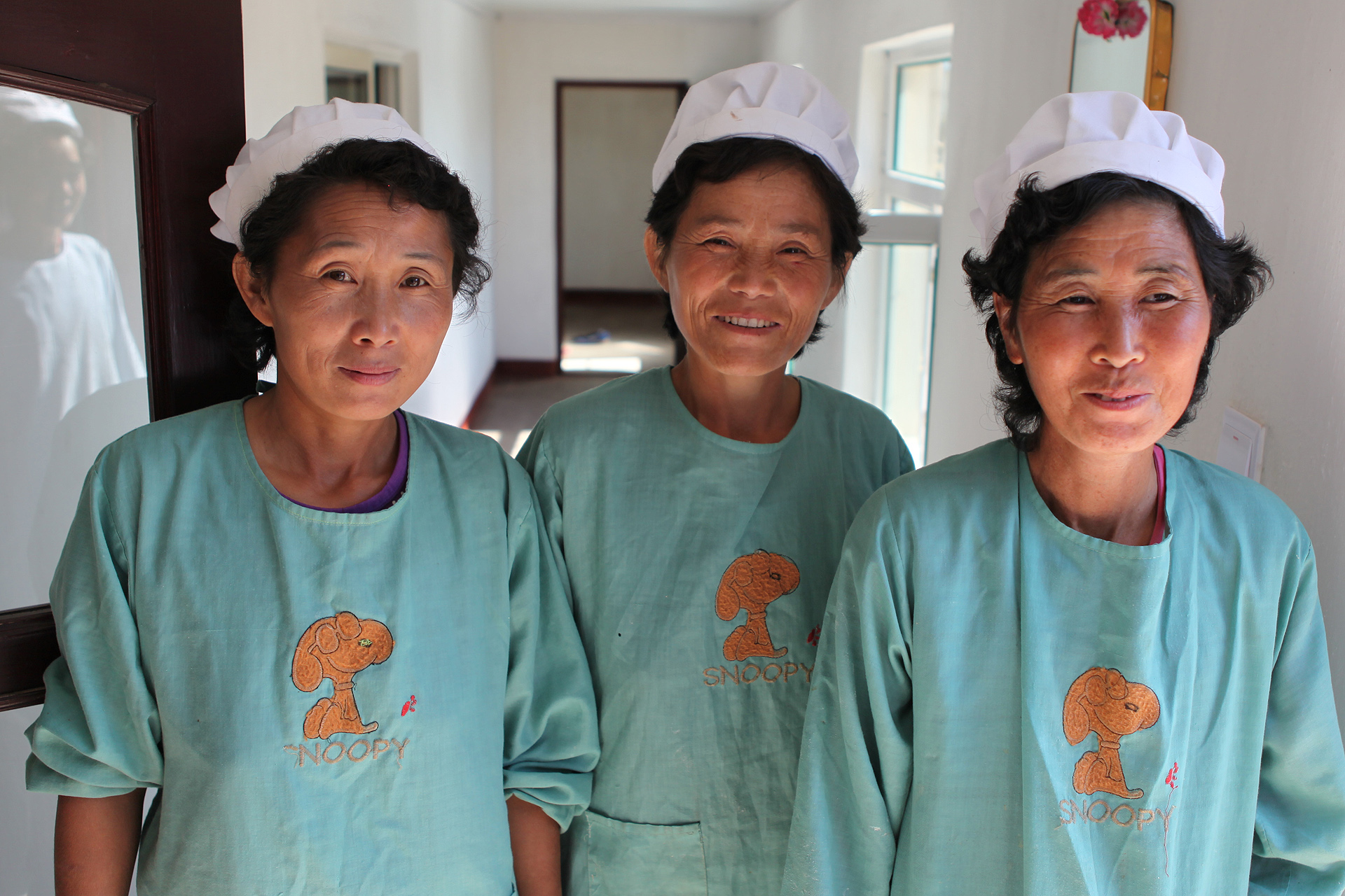 Bakers from Sonbong, North Korea. Note the lovely snoopy t-shirts :)